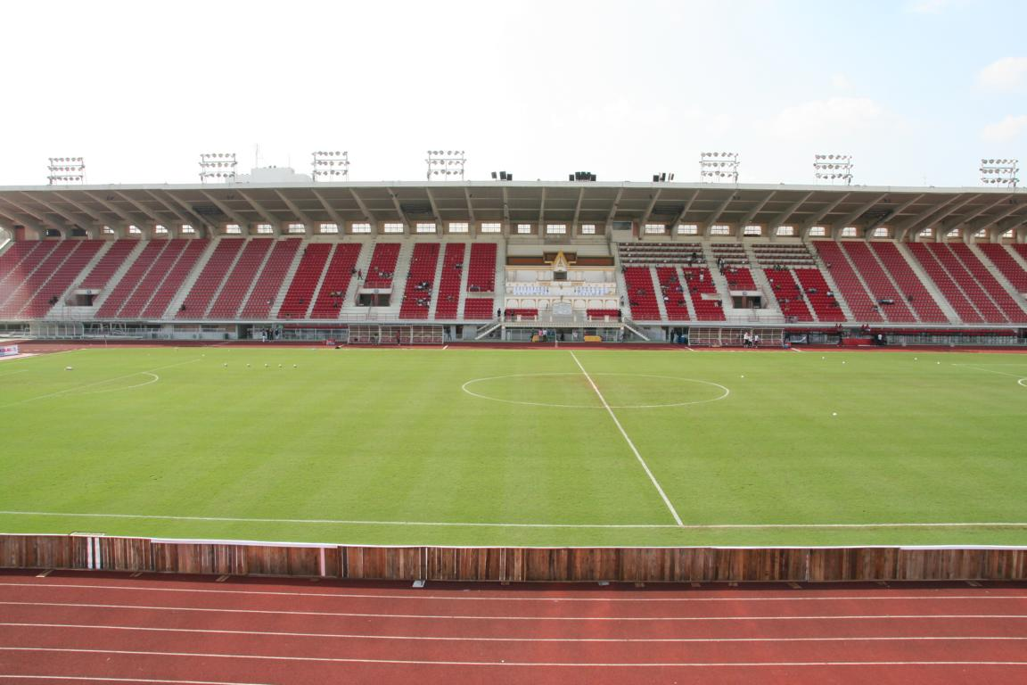 Inside the Suphachalasai Stadium